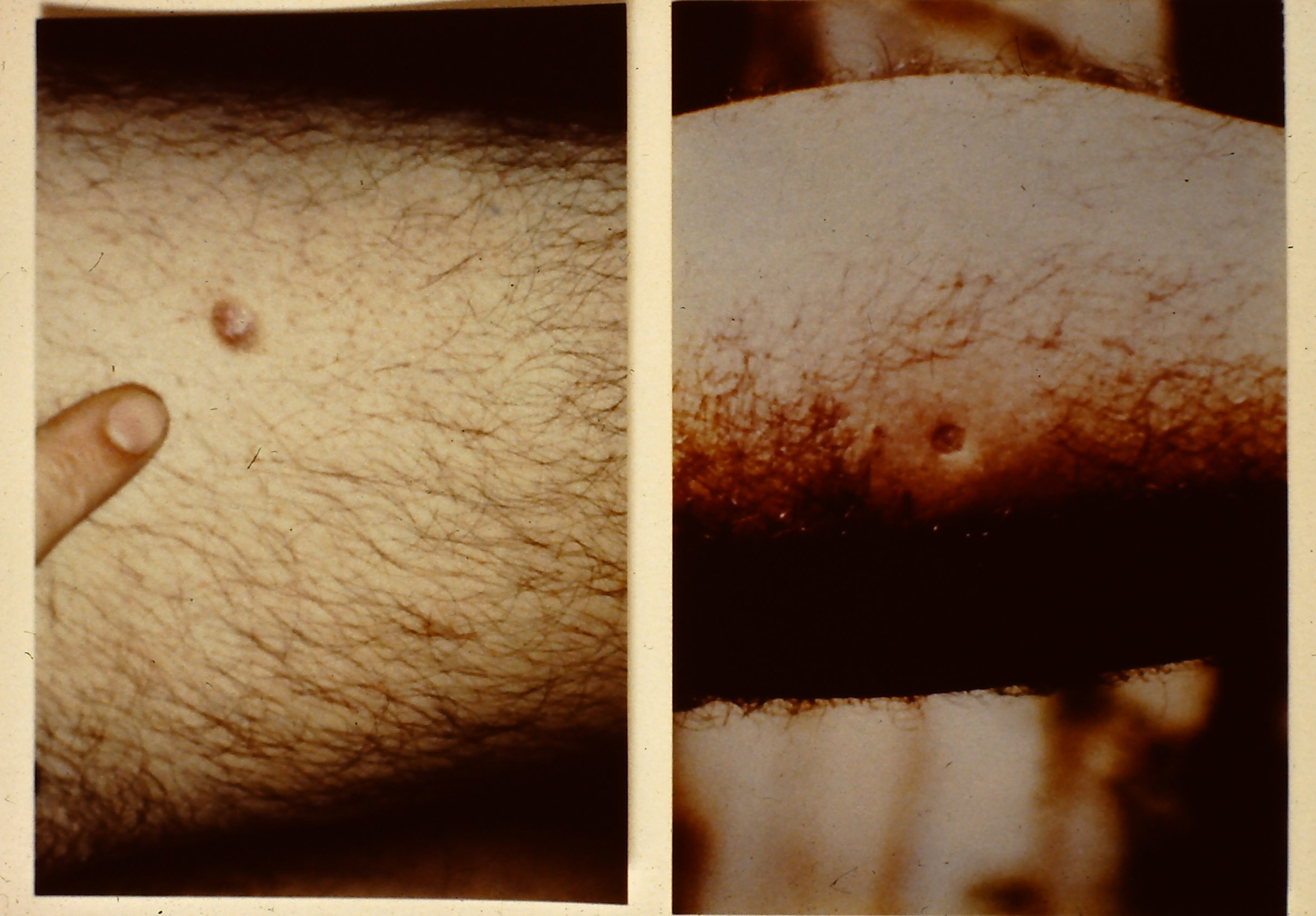 Hopkins believed these scars on people's bodies were evidence of the physical reality of abductions.